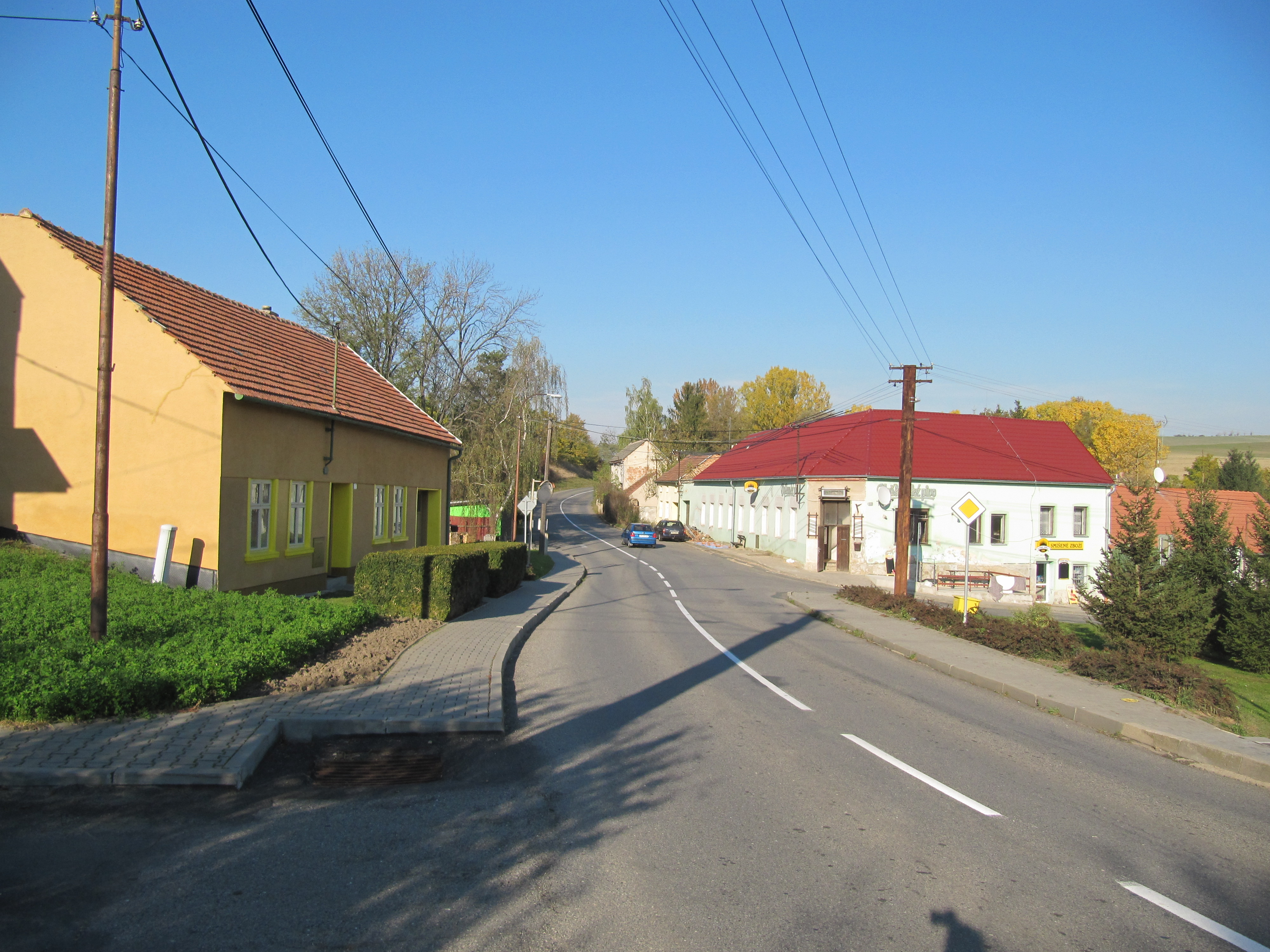 Bohaté Málkovice in Vyškov District, Czech Republic. Main Street, Bohdalice direction. Pub on the right, then to the right the village square.